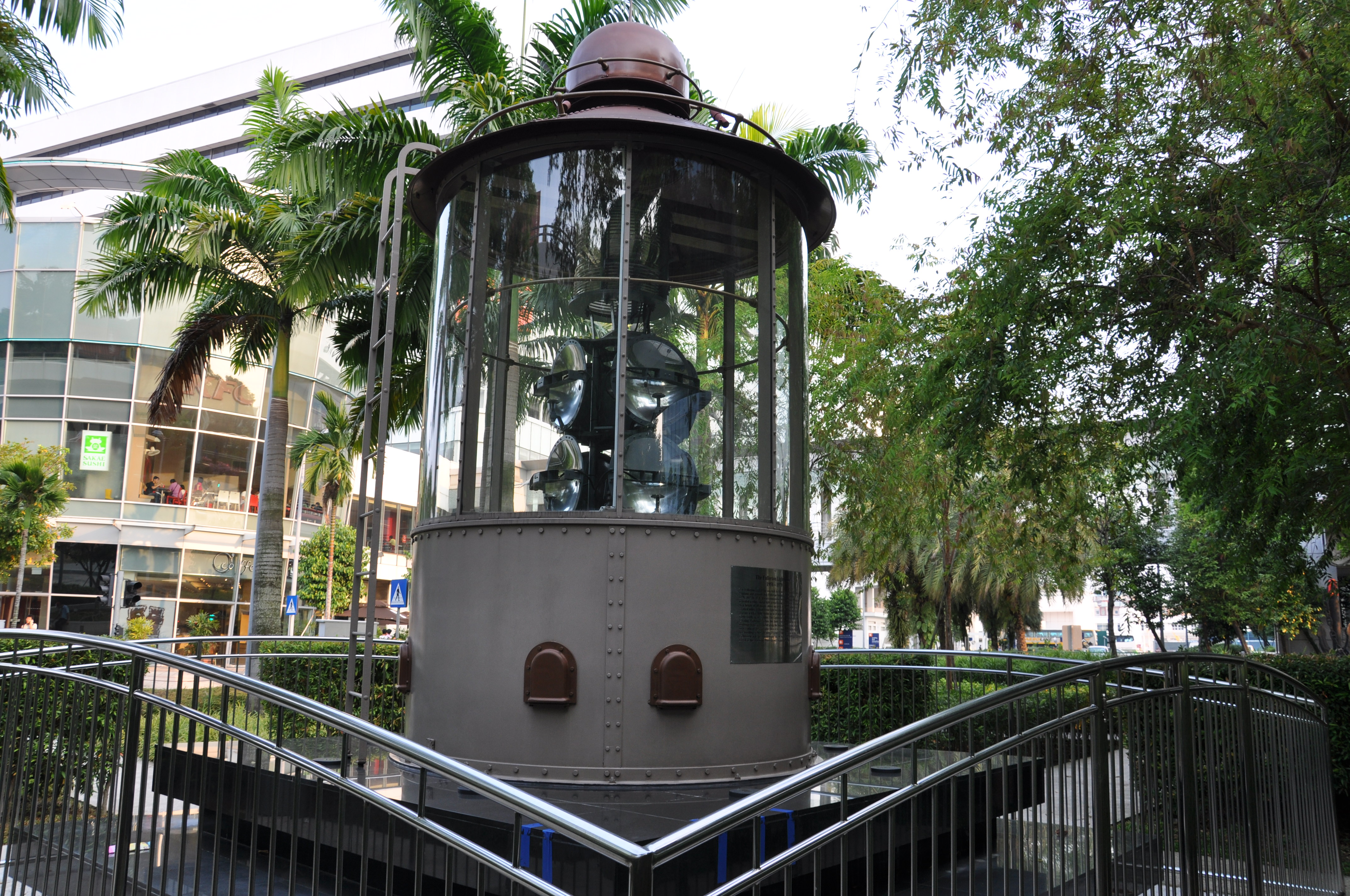 The lantern of the former Fullerton Lighthouse at HarbourFront Tower One, Singapore.